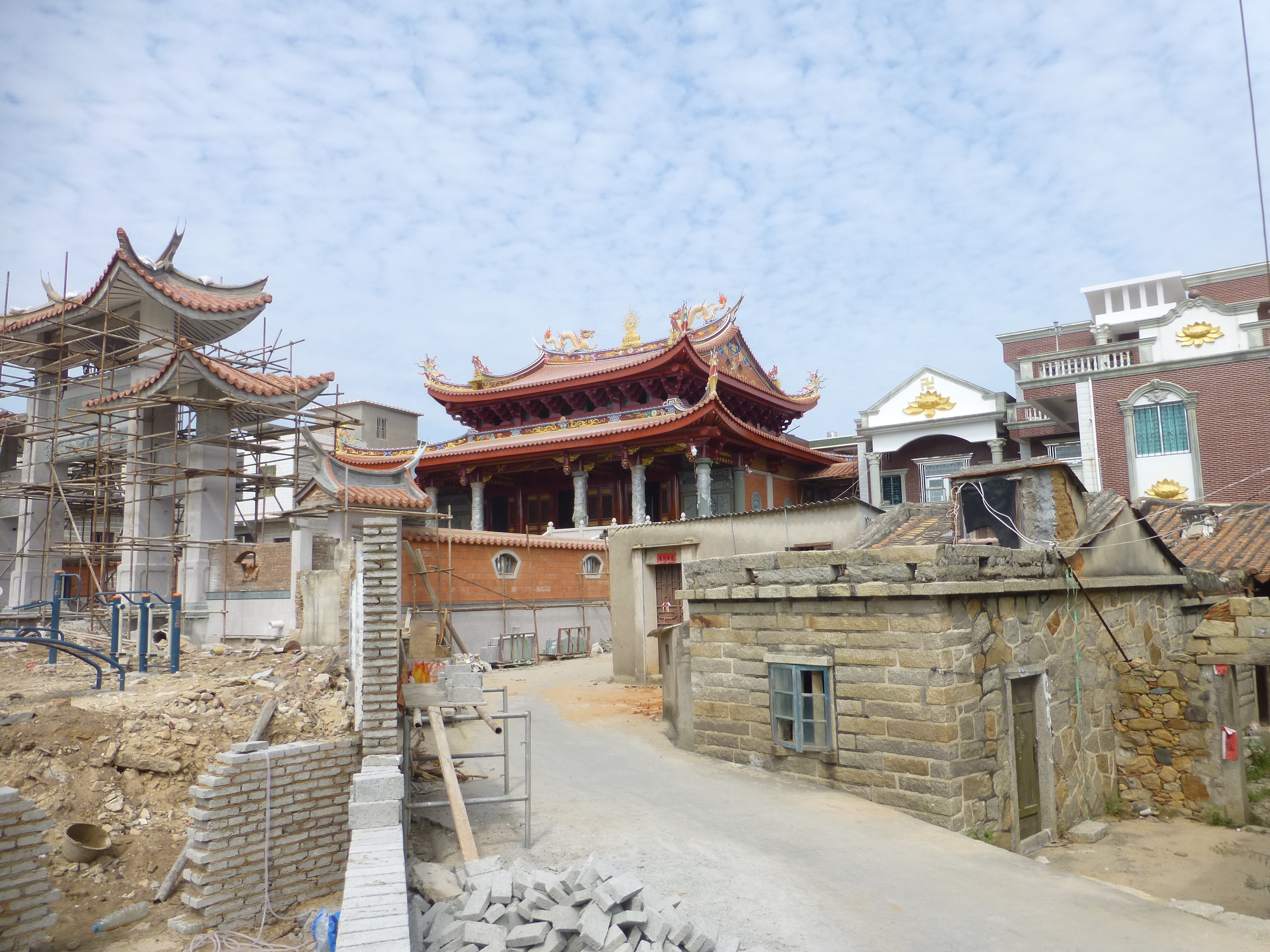 In the walled city of Chongwu (Chongwu Cheng)